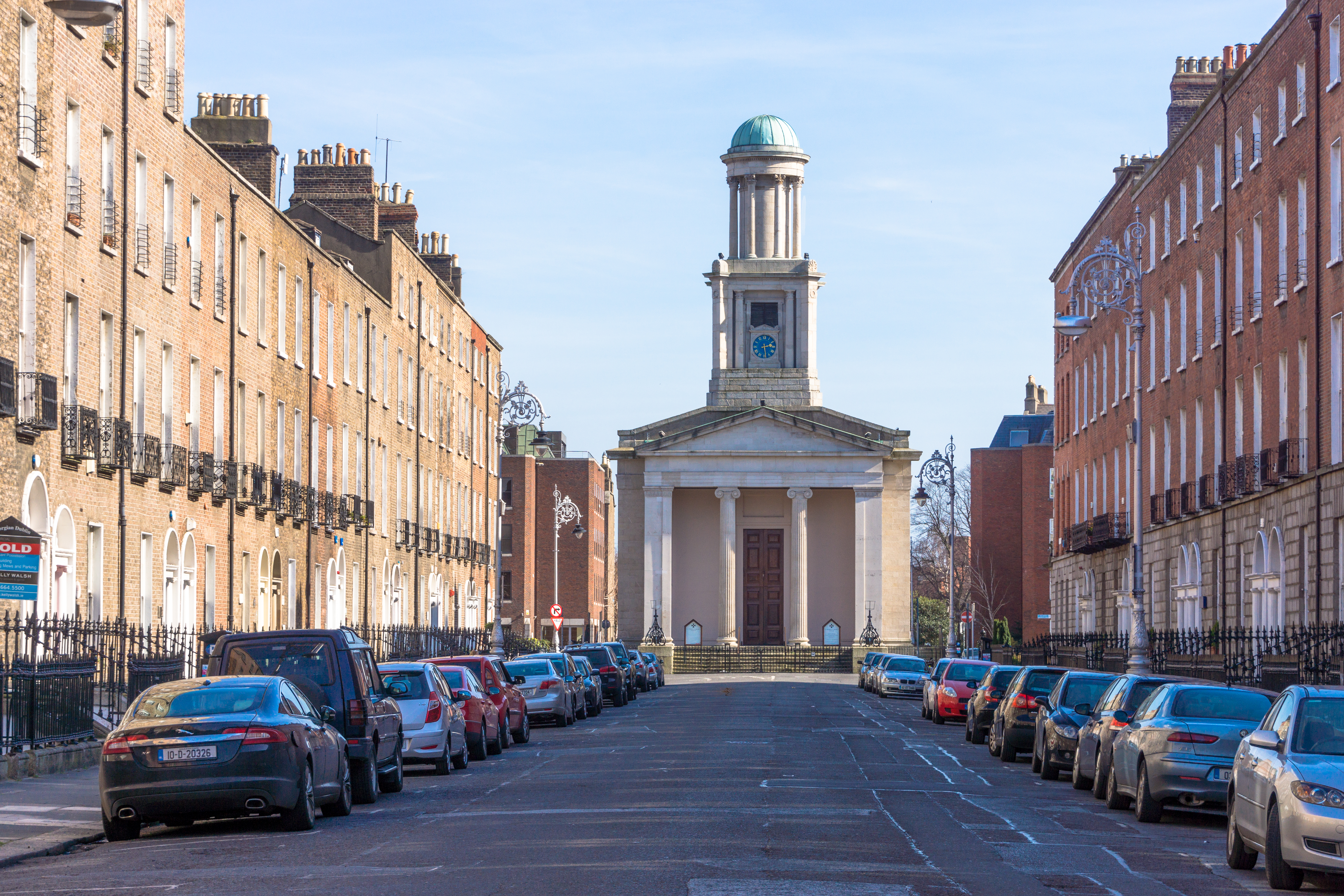 A view of the Pepper Canister', which was the nickname of Saint Stephen's Church due to its tower shape which slightly resembled a pepper shaker or pot.